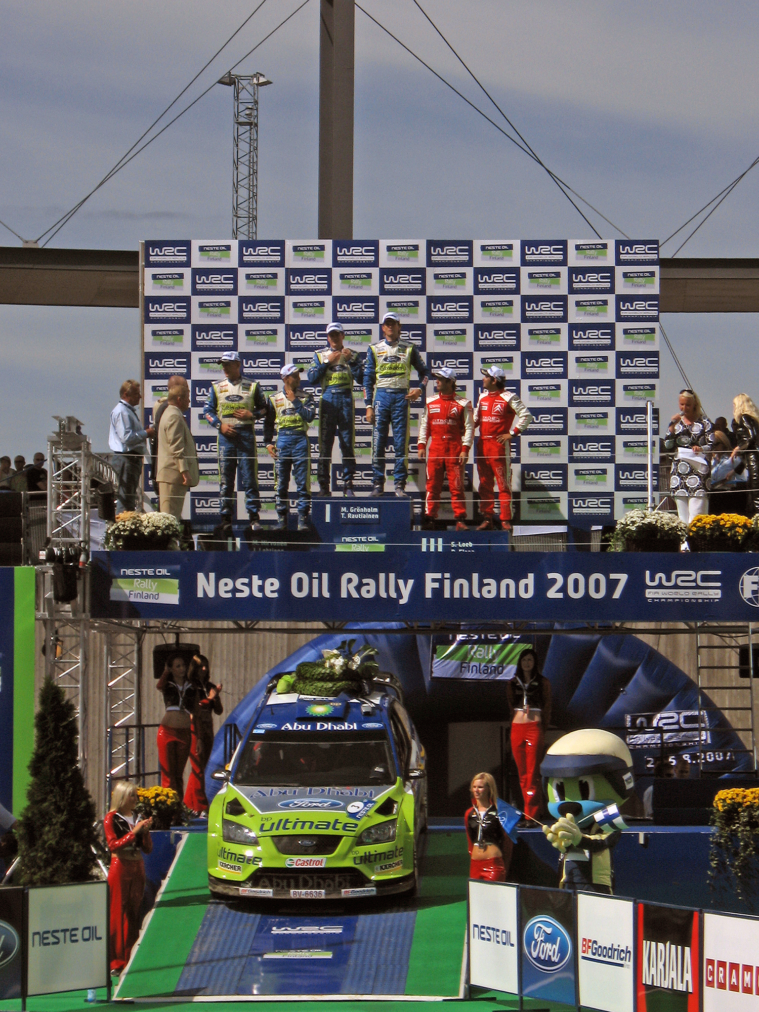 The podium ceremony of the 2007 Rally Finland.